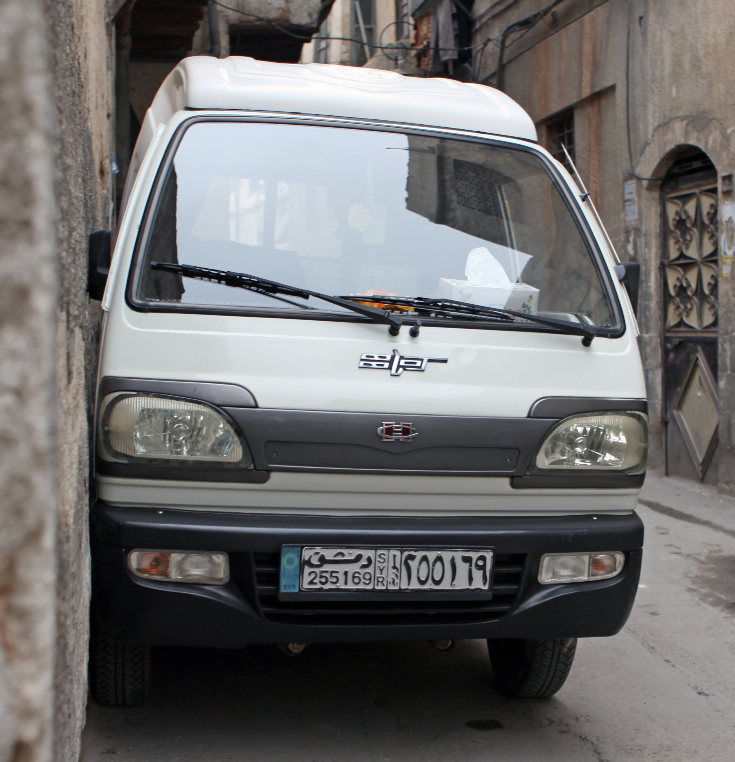 Changhe CH1012 microtruck in old town Damascus. This is a Chinese-built copy of the Suzuki Carry SK410, offered by Changhe since 1993.